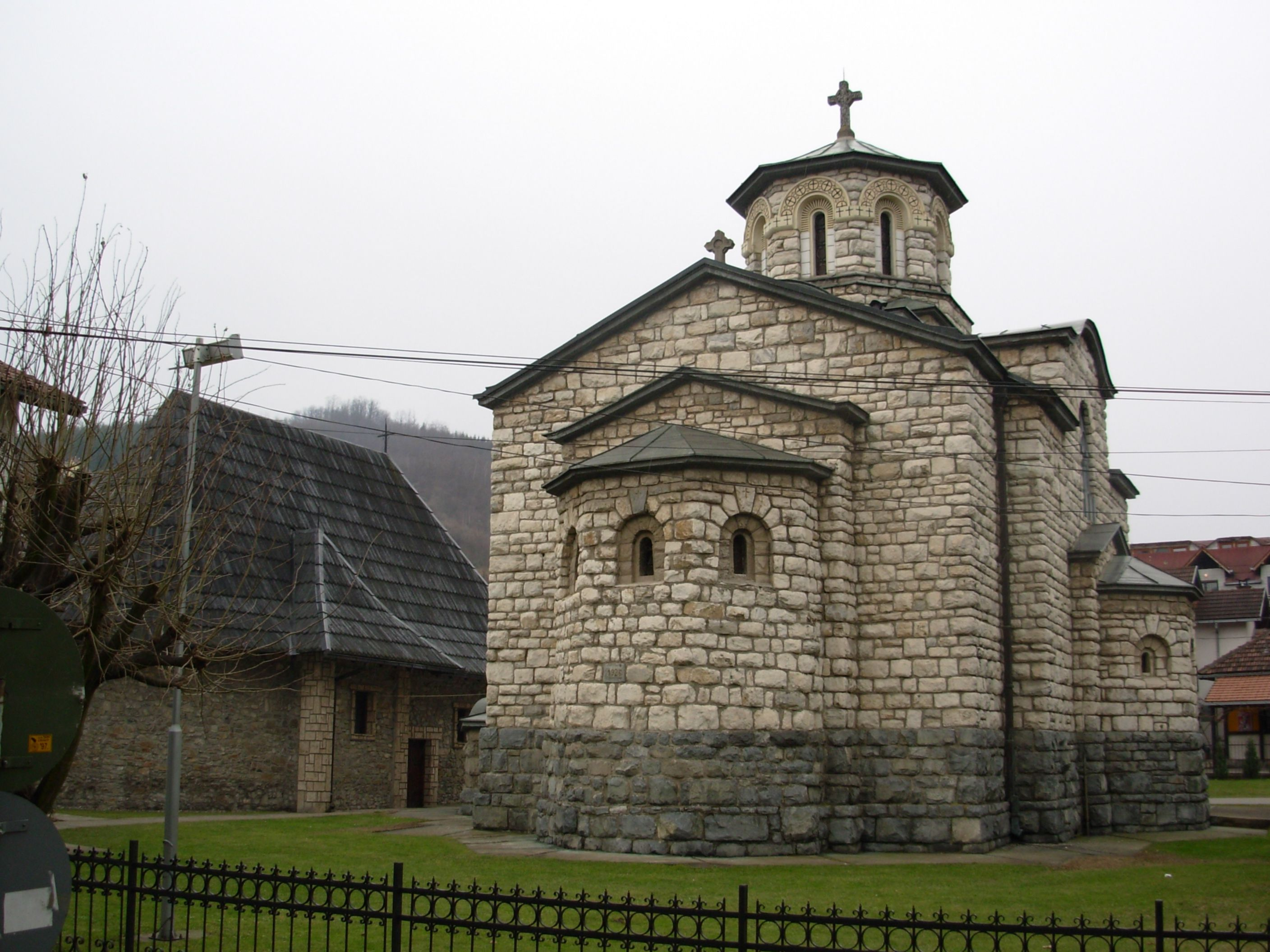 Church of Holy Ascension (Crkva Vaznesenja Gospodnjeg) in Krupanj, Serbia